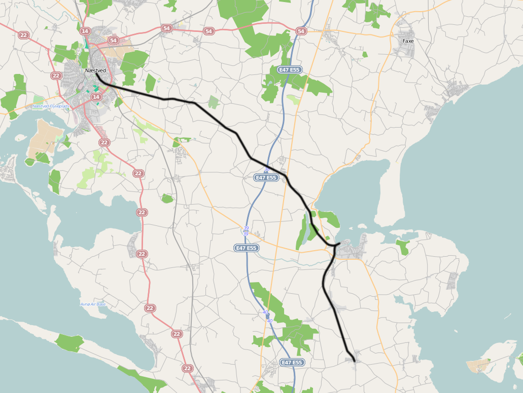 Railway line Næstved - Mern